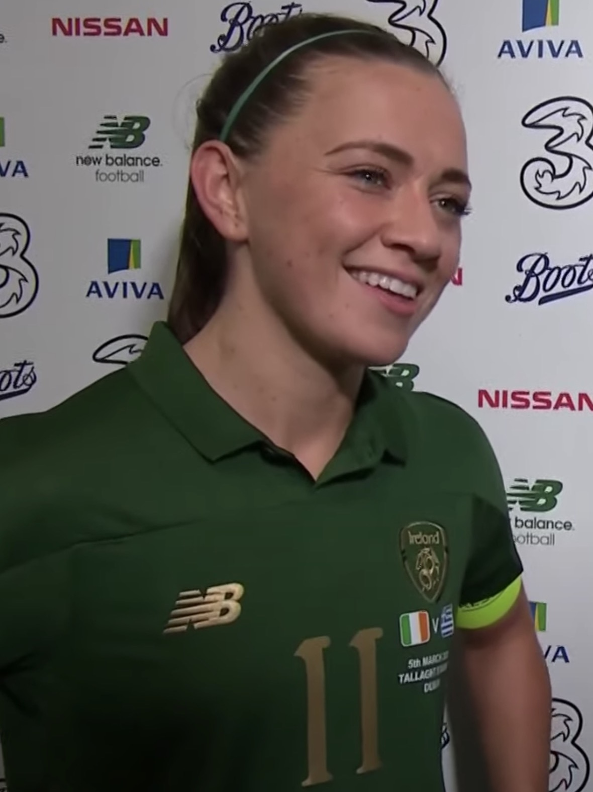 Katie McCabe and Aine O'Gorman of the Republic of Ireland interviewed by RTE after their match against Greece in March 2020